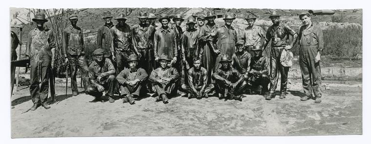 "Oil crew in Coyote fields, Calif." The New York Public Library Digital Collections. 1860 - 1920. The Miriam and Ira D. Wallach Division of Art, Prints and Photographs: Photography Collection, The New York Public Library.